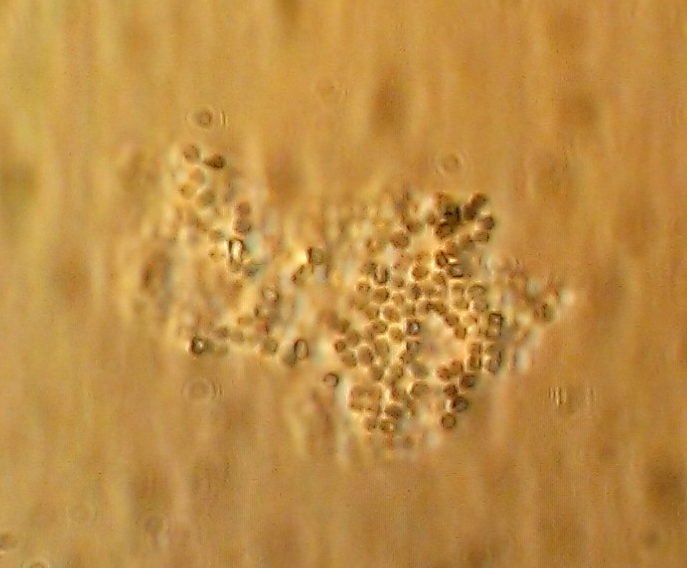 M.luteus in fresh state at x1250 - Contrast Microscopy